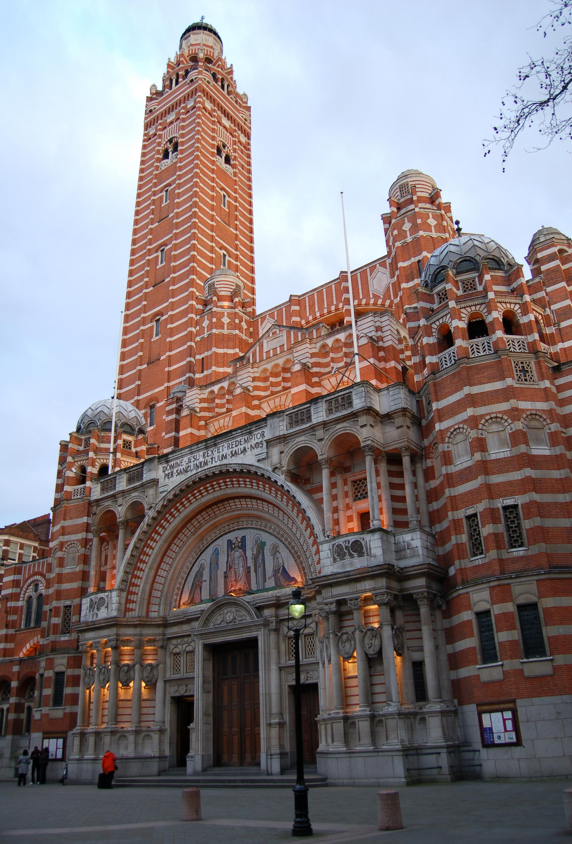 Westminster Cathedral.Byzantium SW1